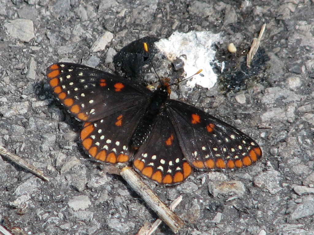 Baltimore Checkerspot (Euphydryas phaeton) taken in Mer Bleue Conservation Area, Ottawa, Ontario, Canada